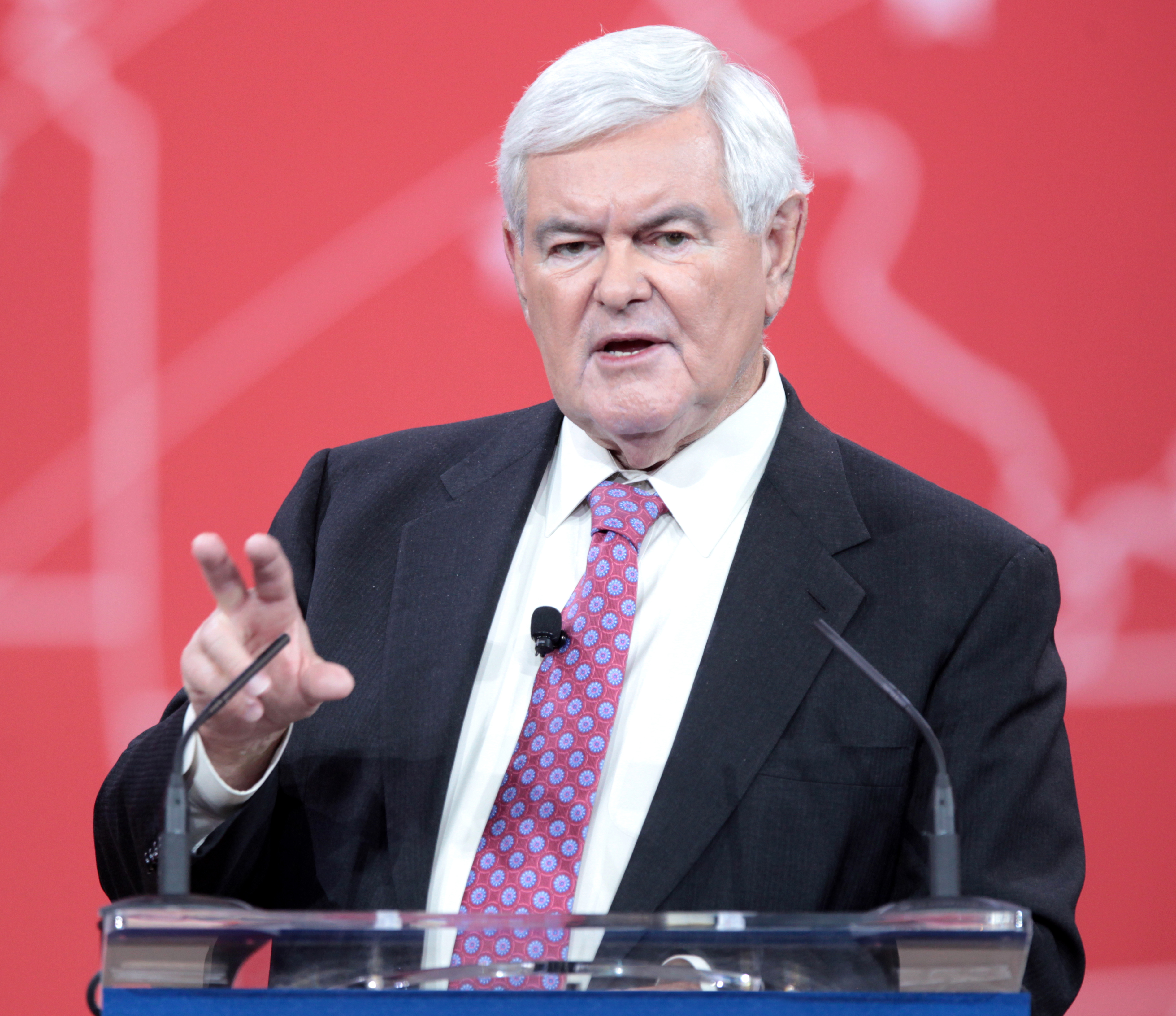 Newt Gingrich speaking at CPAC 2015 in Washington, DC.